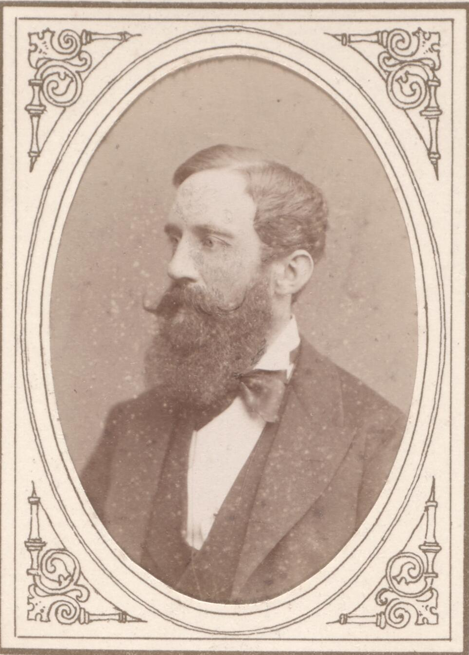 Plate 05 Photograph album of German and Austrian scientists. Wien II (Vienna II): Julius von Bergenstamm.